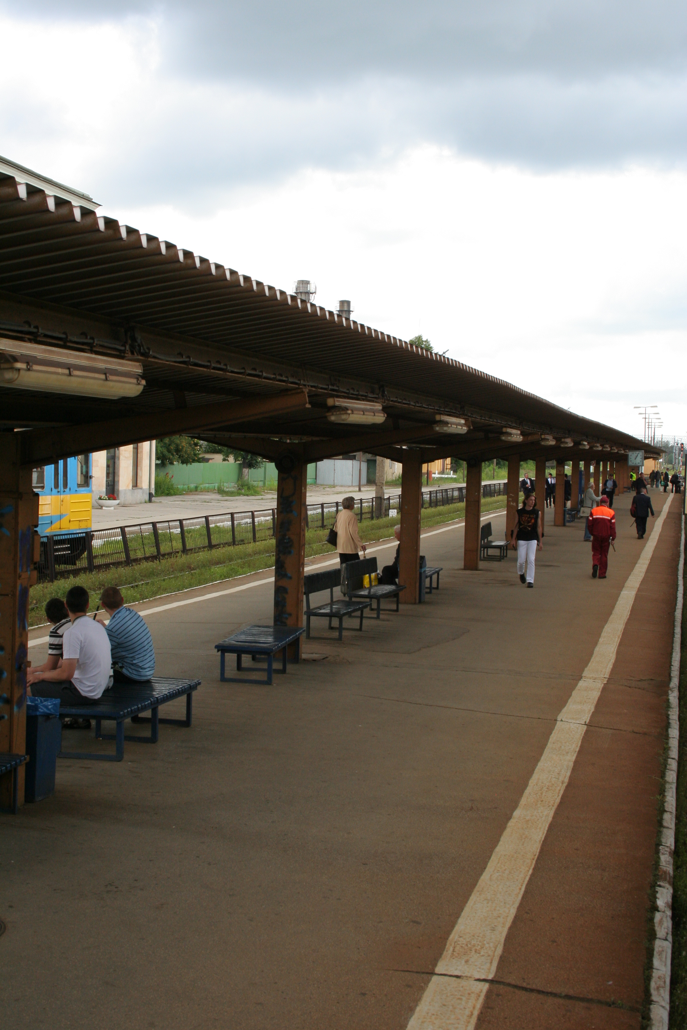 Train station in Skarżysko-Kamienna